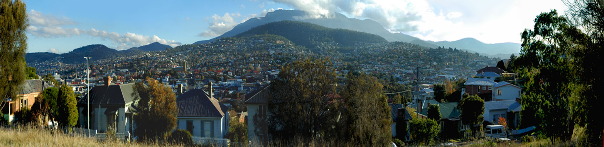 Panorama of Hobart, Tasmania, with Mt. Wellington shrouded by clouds in the background. Taken (facing west) from the Domain above the suburb of Glebe.